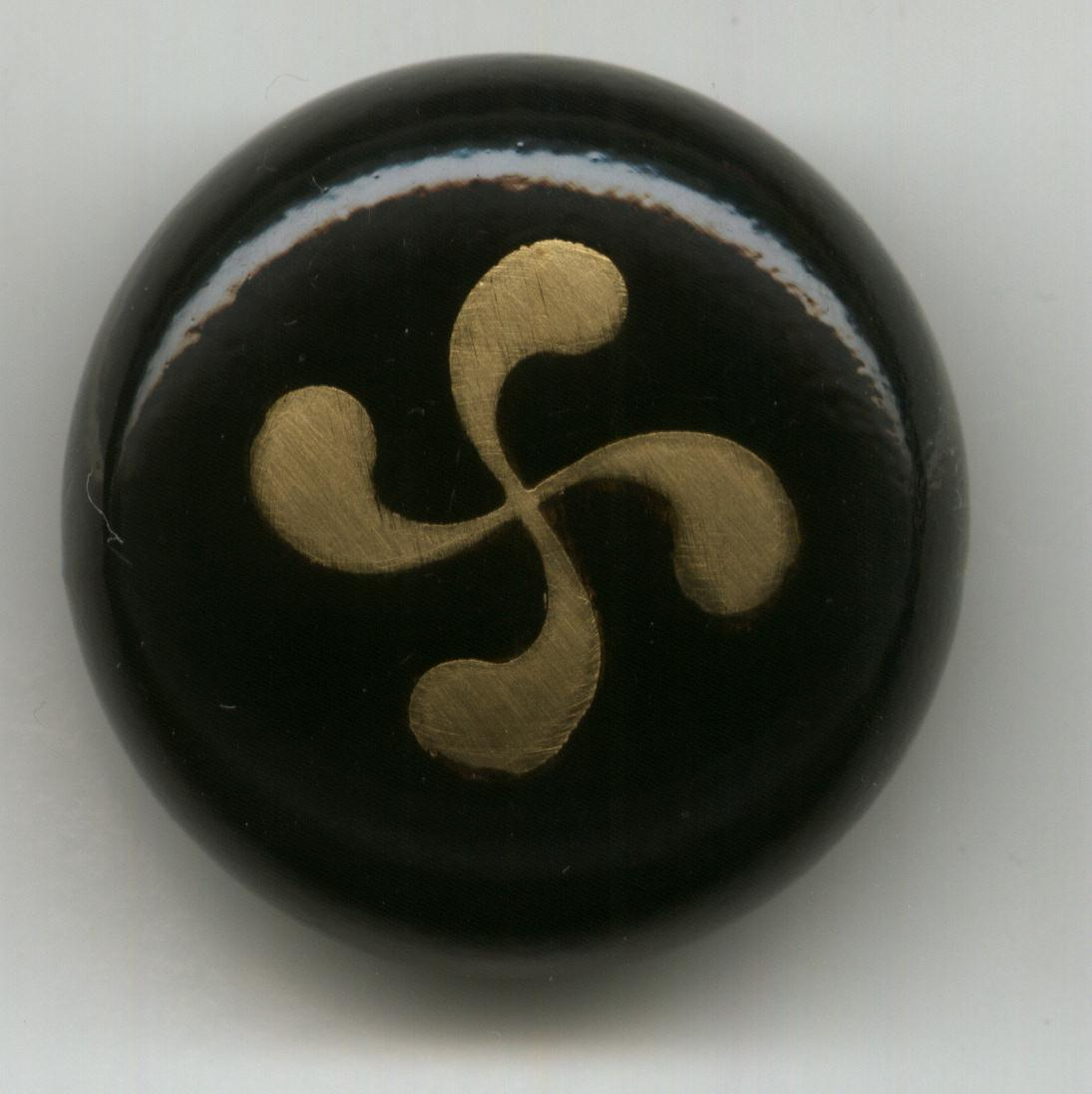 Lauburu, the Basque Cross